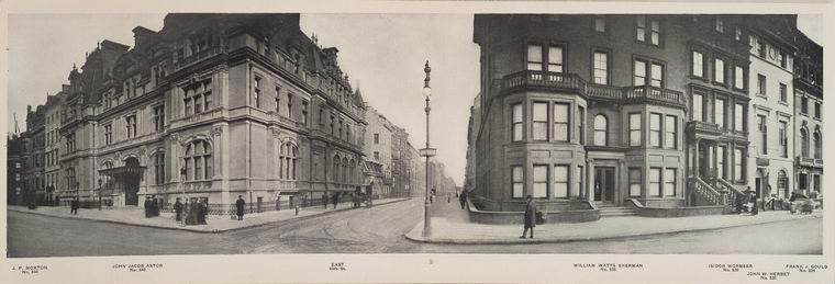 Digital ID: 1113287. [No. 834 Frank J. Gould - No. 838 William Watts Sherman - No. 840 John Jacob Astor - No. 844 J. P. Morton.]. Welles & Co. -- Publisher. c1911 Source: Fifth Avenue, New York, from start to finish. ( Repository: The New York Public Library. Irma and Paul Milstein Division of United States History, Local History and Genealogy. See more information about and others at Persistent URL: Rights Info: No known copyright restrictions; may be subject to third party rights (for more information